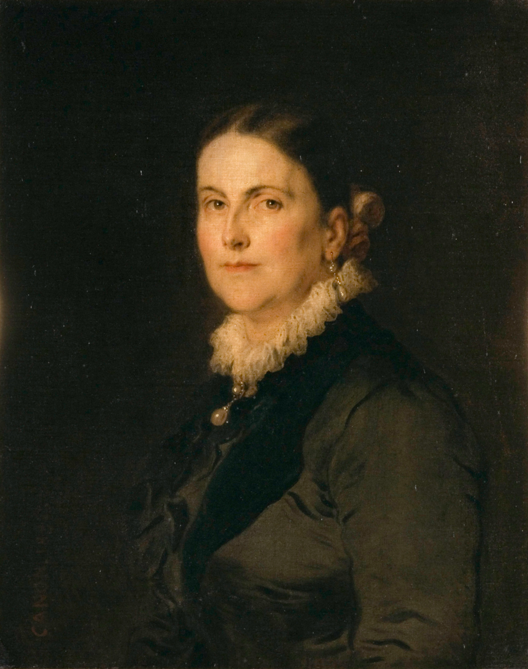 Princess Henriette of Liechtenstein (1843-1931) child of Aloys II and wife of Prince Alfred of Liechtenstein (1842-1907)